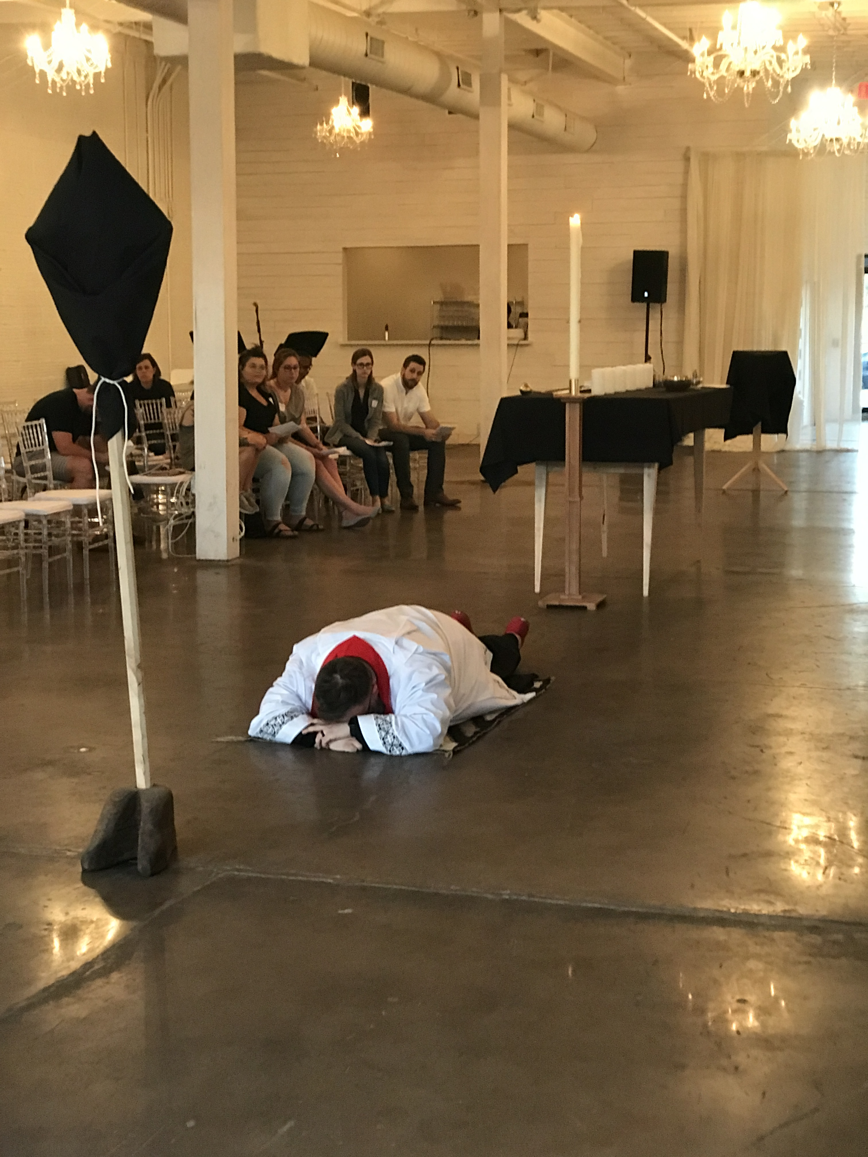 The image depicts a United Methodist minister prostrating at the start of the Good Friday liturgy at Holy Family Church. This picture was clicked on March 30, 2018.